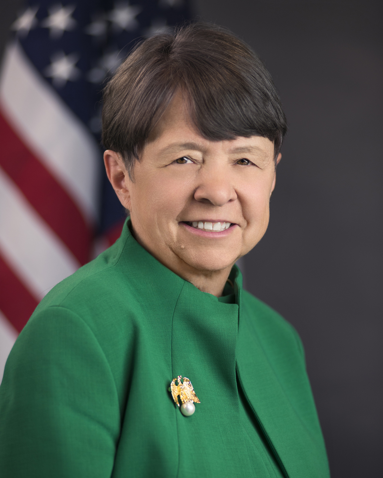 Official SEC portrait of SEC chairperson Mary Jo White